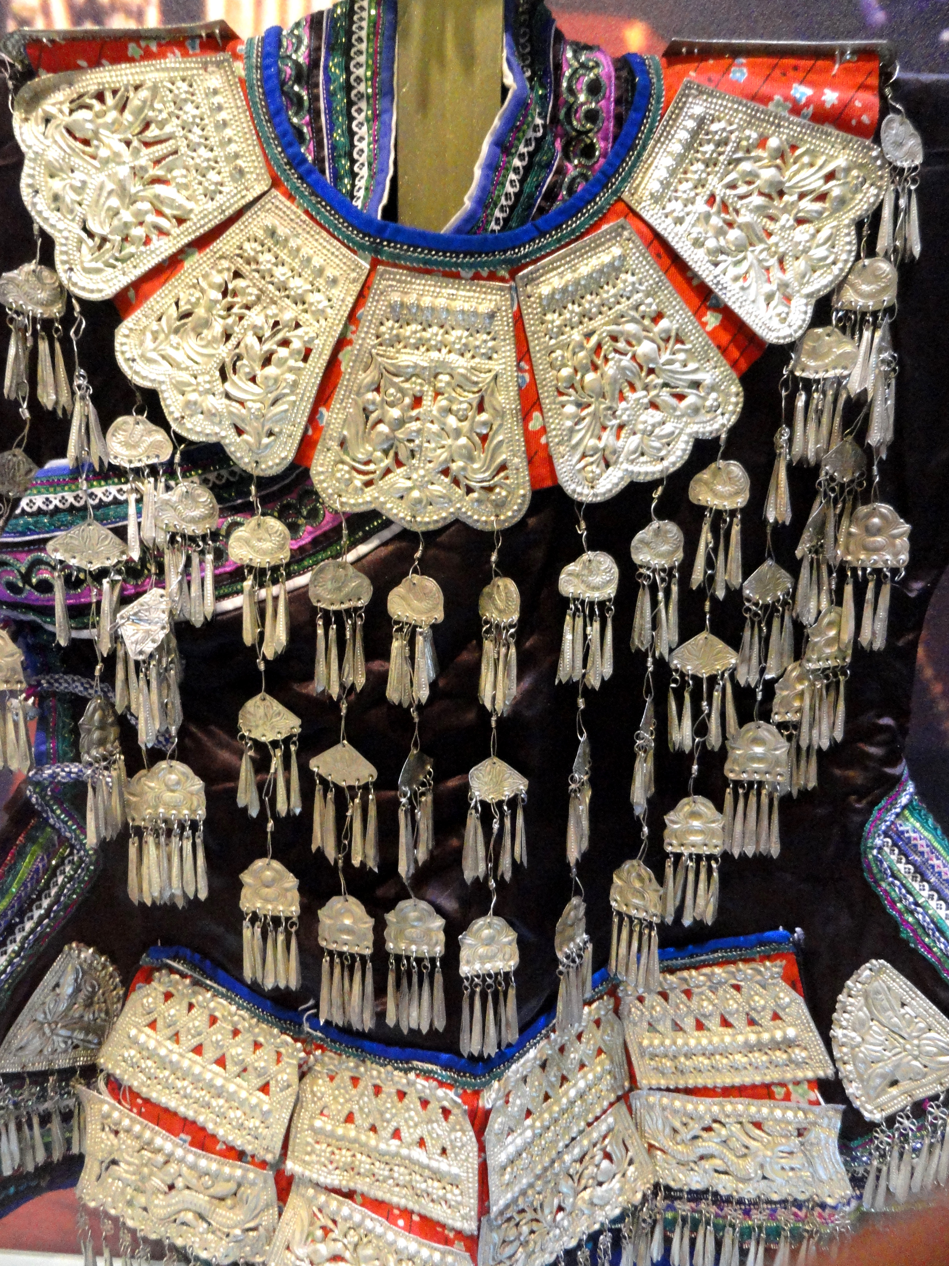 Zhuang female clothing. Clothing in the Yunnan Provincial Museum, Kunming, Yunnan, China.